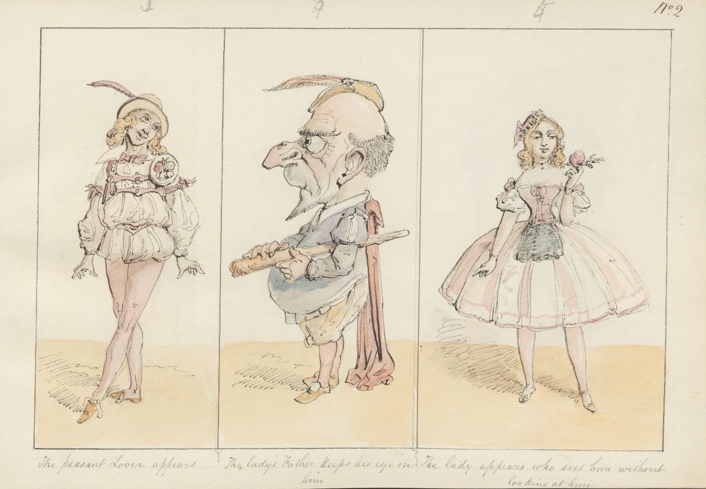 Pen and ink water color drawing from Pantomime as it was is and will be by Alfred Crowquill, aka Alfred Henry Forrester (1804-1872) and his brother Charles Robert Forrester (1803-1850). Undated. MS Thr 26, Harvard Theatre Collection, Houghton Library, Harvard University